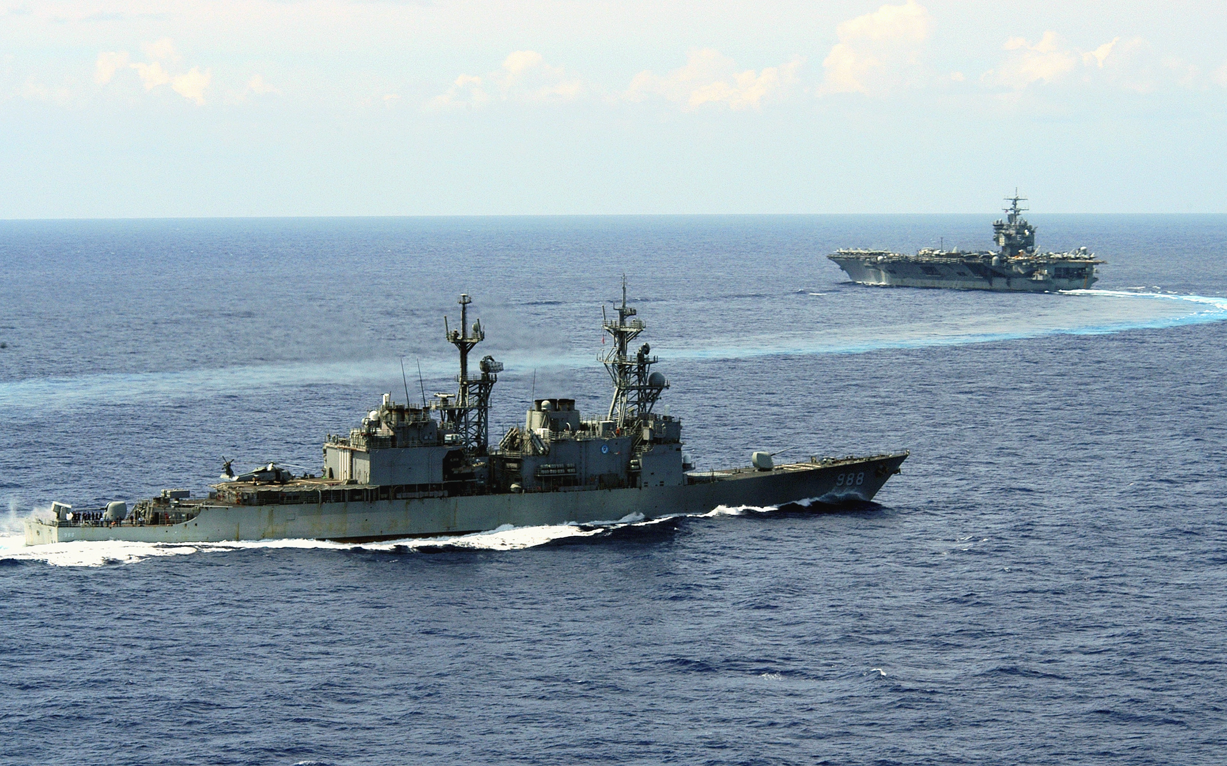 Atlantic Ocean (Sept. 22, 2003) -- The Spruance-class destroyer USS Thorn (DD 988) escorts USS Enterprise (CVN 65) during the Comprehensive Training Unit Exercise (COMPTUEX). The Enterprise Strike Group is underway participating in COMPTUEX in preparation for a Mediterranean Deployment. U.S. Navy photo by Photographer's Mate Airman Joshua C. Kinter. (RELEASED)